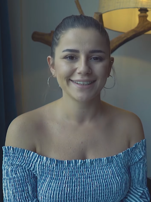 Turkish singer Merve Özbey performing "Tükeneceğiz" at her home.